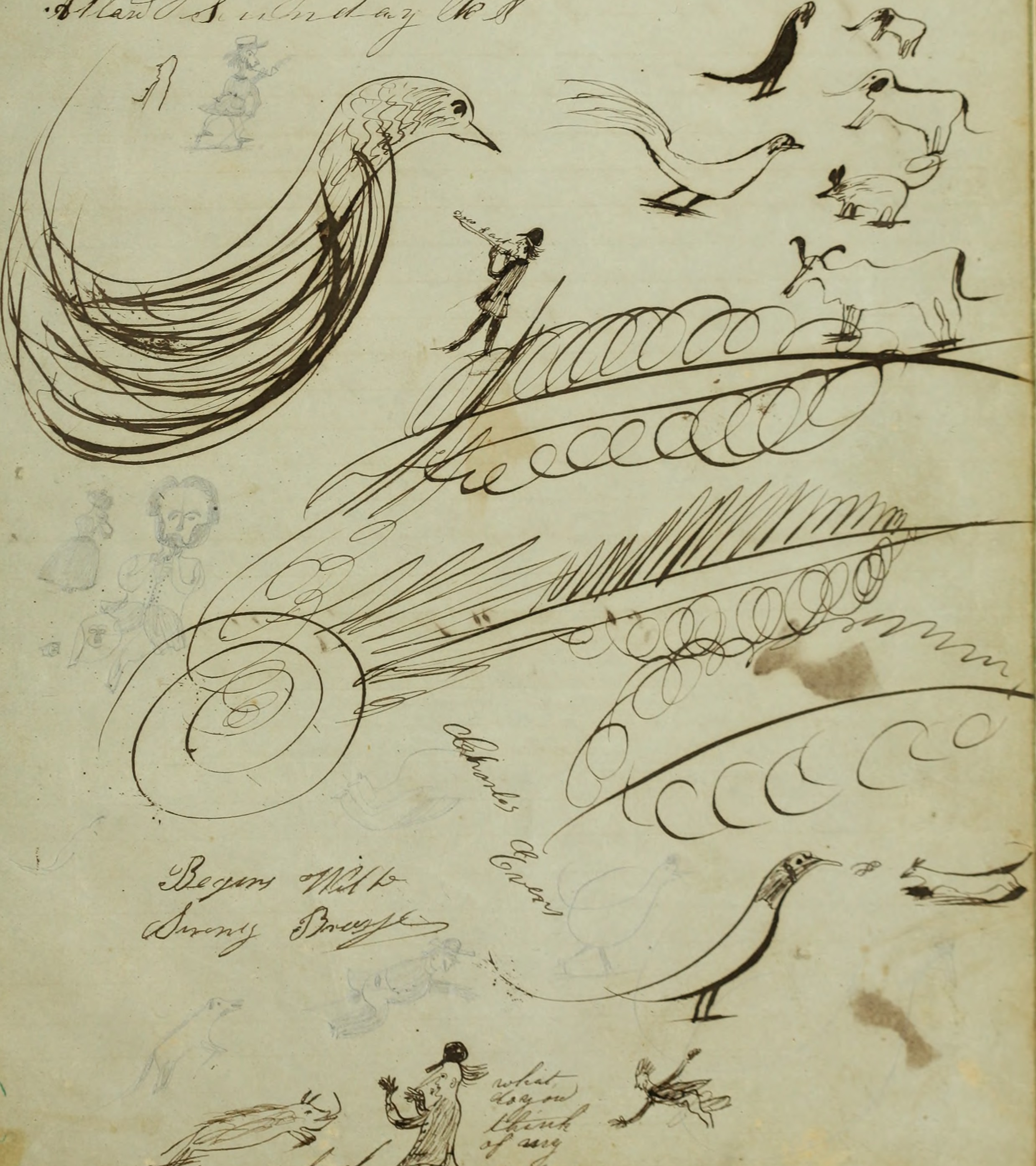 Title: (Benjamin Tucker (Ship), of New Bedford, Mass., mastered by Daniel B. Wood, kept by Daniel A. Chappell, on voyage from 1849 July 18-1851 June 1) Year: 1849 (1840s) Authors: Benjamin Tucker (Ship) Subjects: Wood, Daniel B. Seafaring life Voyages and travels Whalers (Persons) Whales Whaling--Massachusetts--New Bedford Whaling masters Arctic Ocean--Description and travel Japan, Sea of--Description and travel Pacific Ocean--Description and travel Chappell, Daniel A. Publisher: Text Appearing Before Image: ' Text Appearing After Image: '